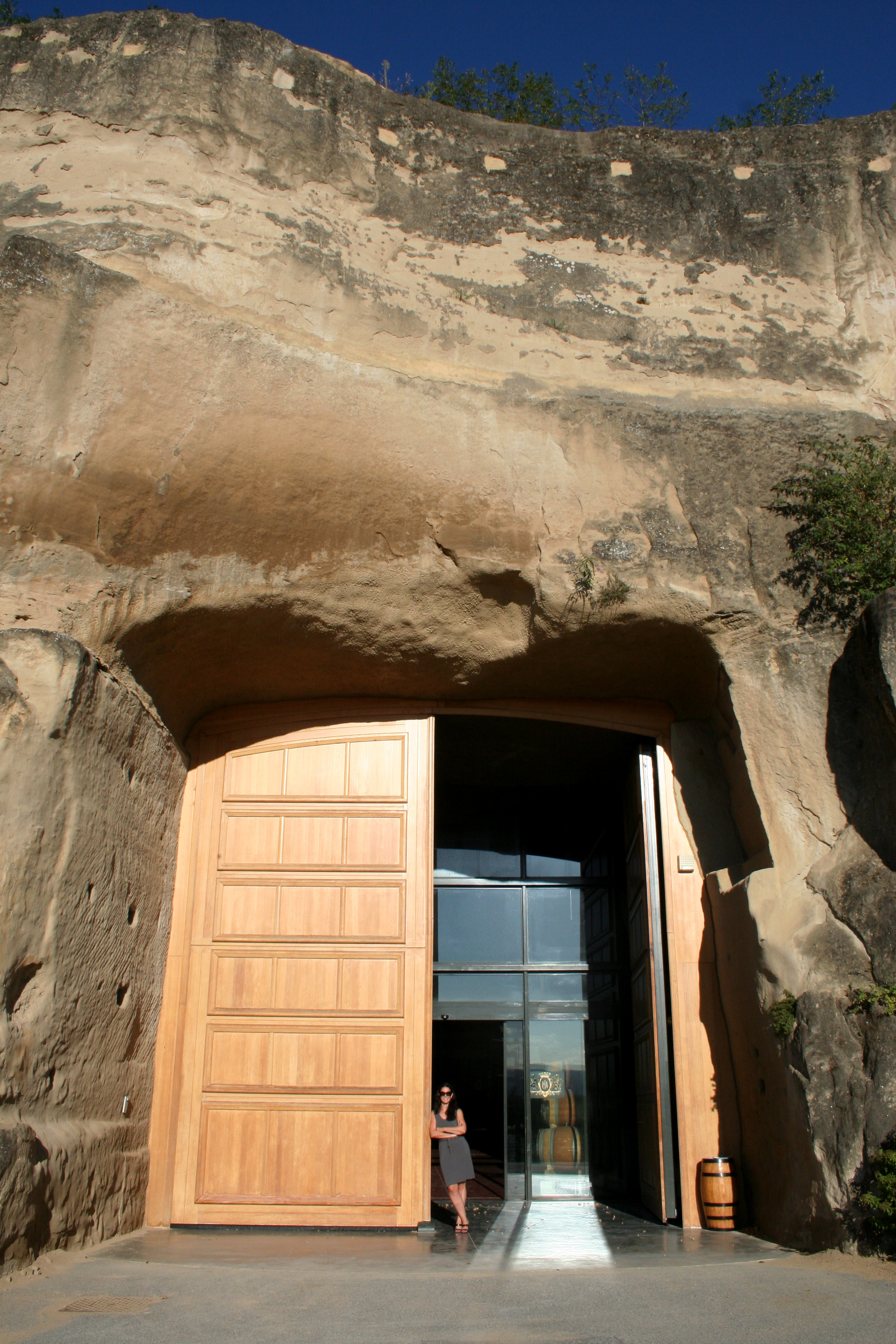 Rhône Valley - Jaboulet Vineum